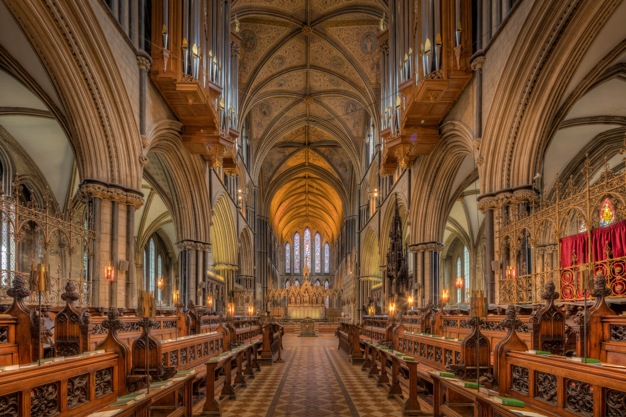 500px provided description: Here is an hdr photograph taken from the choir inside Worcester Cathedral. Located in Worcester, Worcestershire, England, UK. [#religion ,#church ,#british ,#old ,#architecture ,#building ,#england ,#interior ,#cathedral ,#pray ,#room ,#holy ,#place ,#famous ,#gothic ,#inside ,#abbey ,#historic ,#sacred ,#religious ,#praying ,#english ,#choir ,#minster ,#worcester ,#worcestershire ,#cathedra ,#quire ,#worcester cathedral ,#lanmdark]